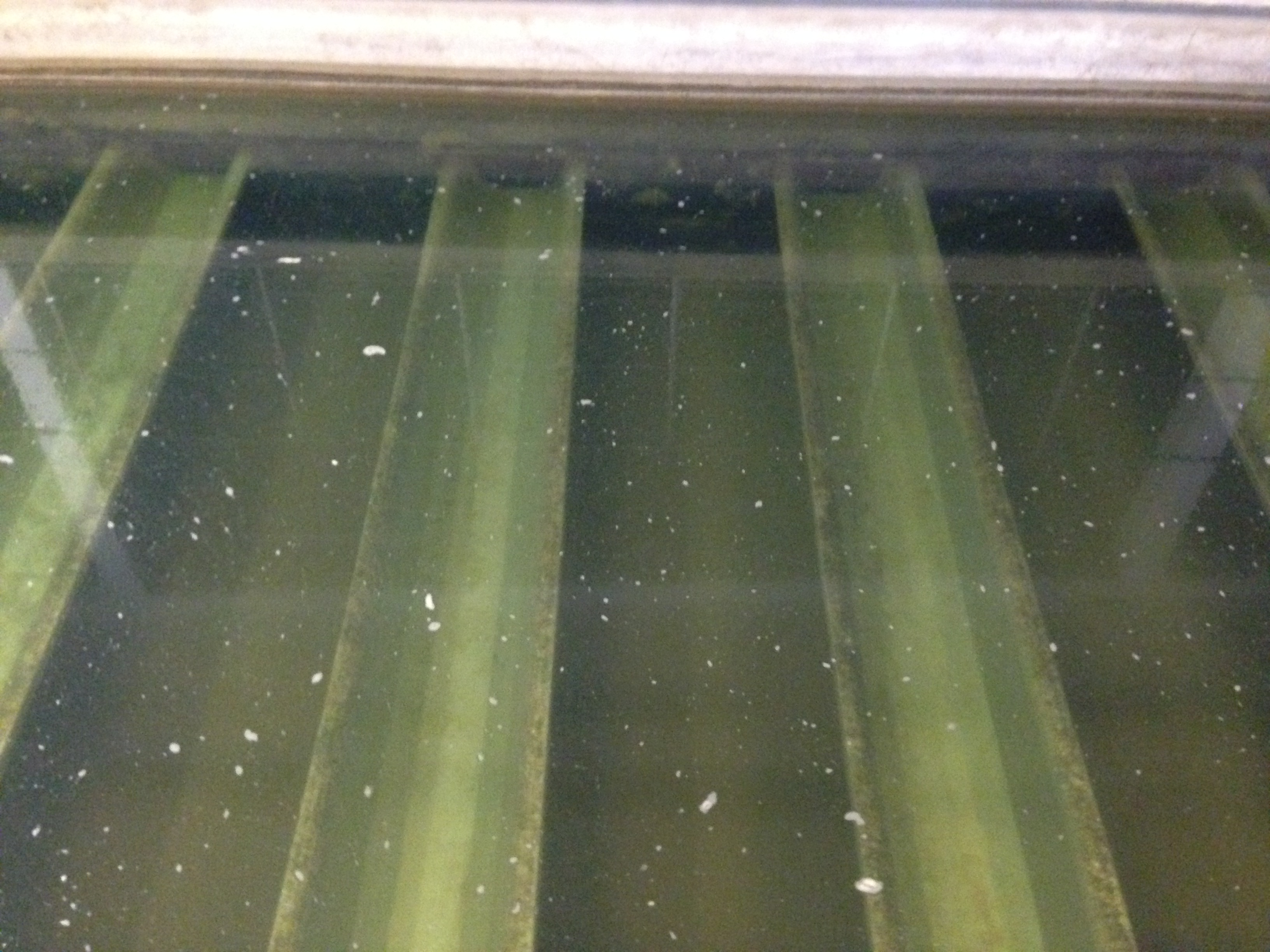 Flock